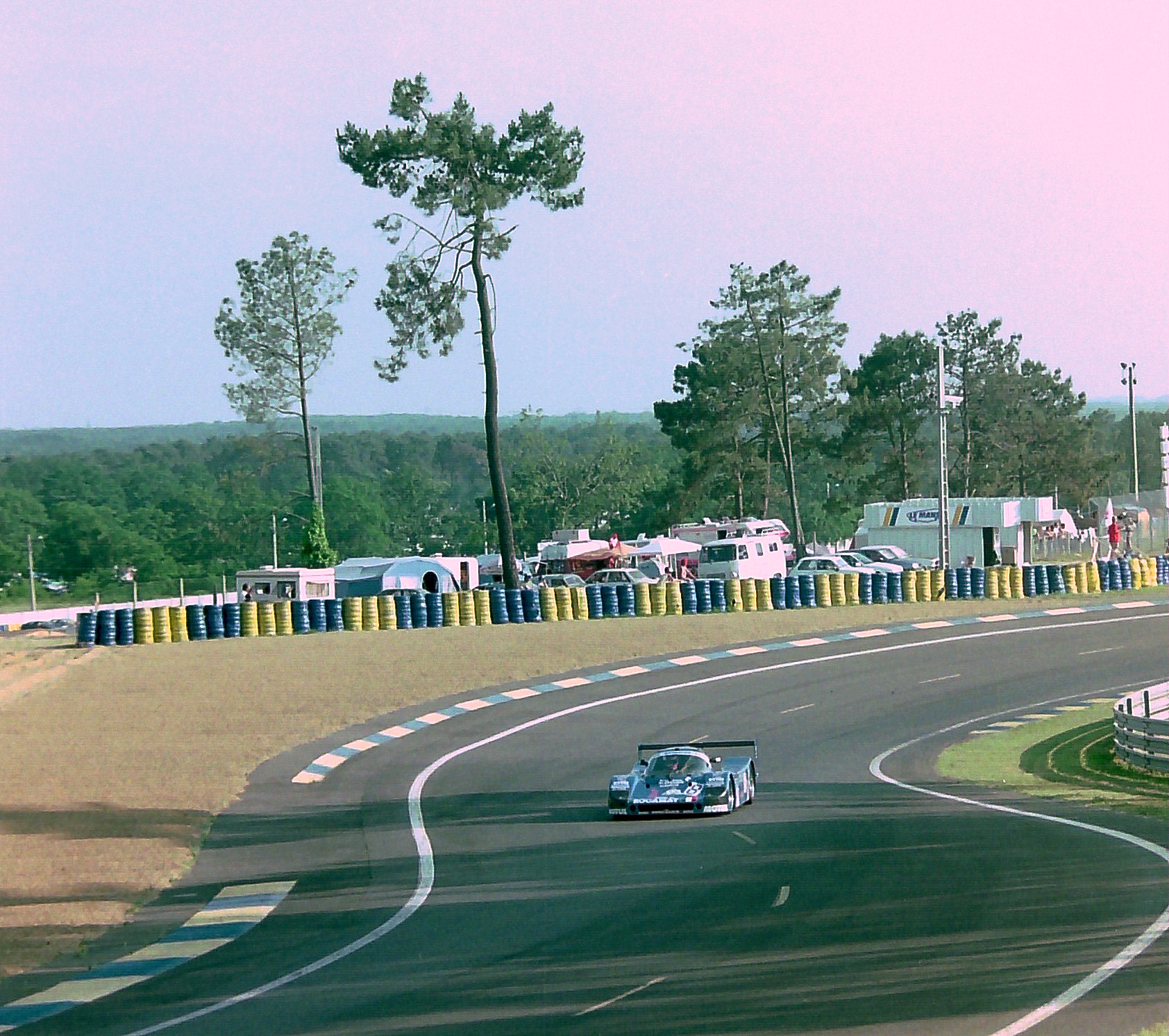 Alpa LM - Patrick Bourdais, Nicolas Minassian & Olivier Couvreur in the Esses at the 1994 Le Mans